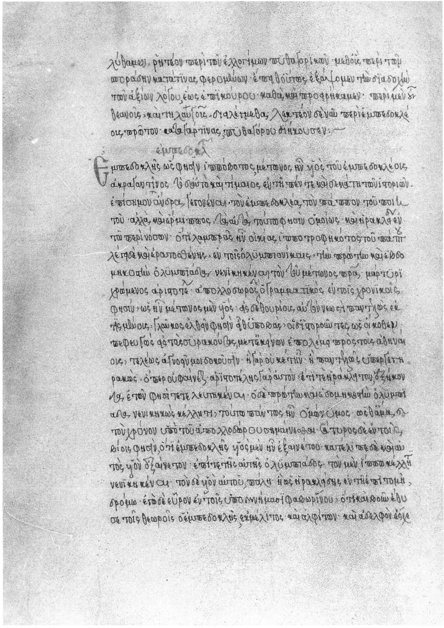 Diogenes Laertius, Lives and Opinions of Eminent Philosophers: the beginning of the biography of Empedocles in a manuscript from the library of Bessarion. Venice, Biblioteca Nazionale Marciana, Gr. 394, fol. 143v.